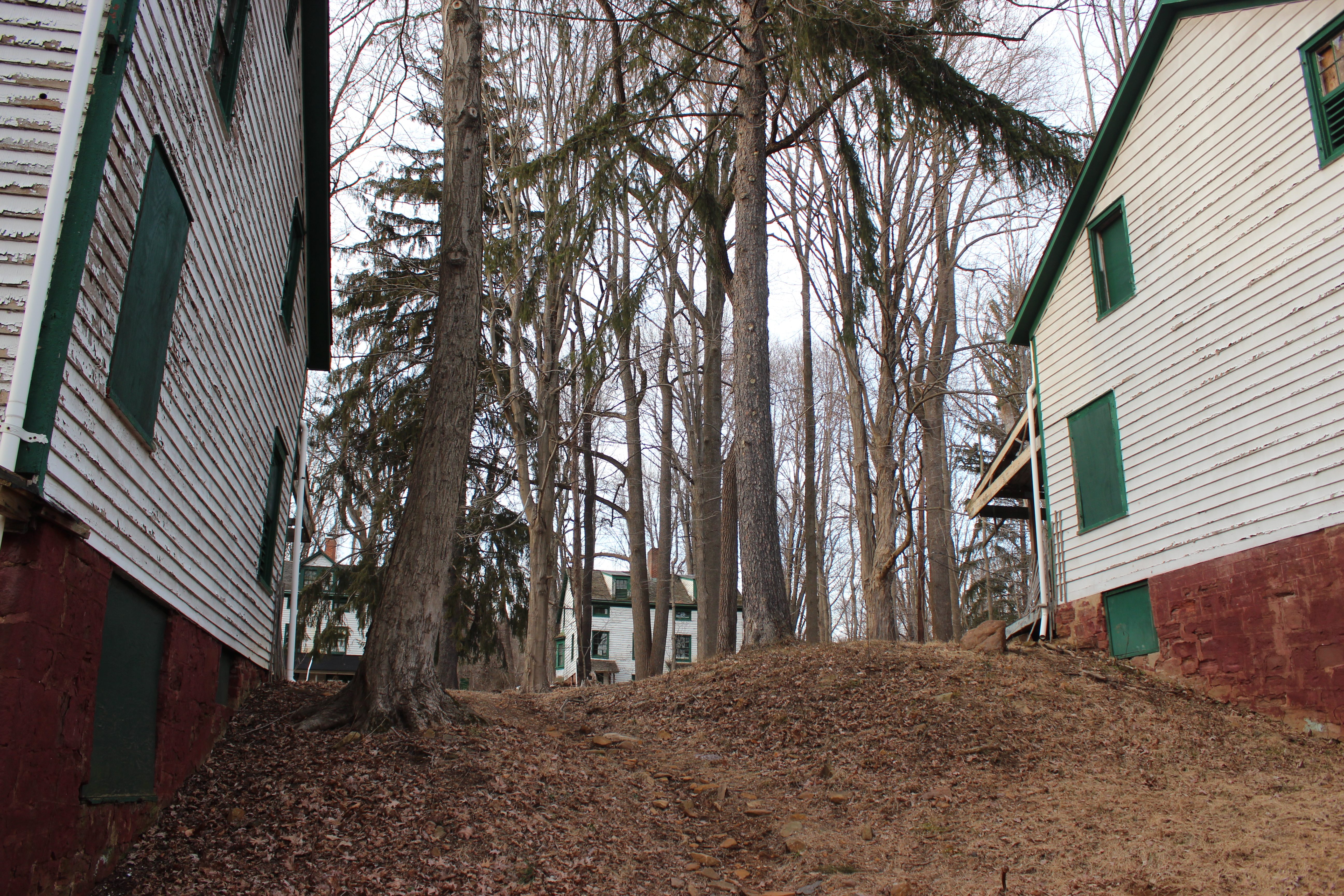 Some of the decaying houses of the old mill town of Feltville in the Watchung Reservation